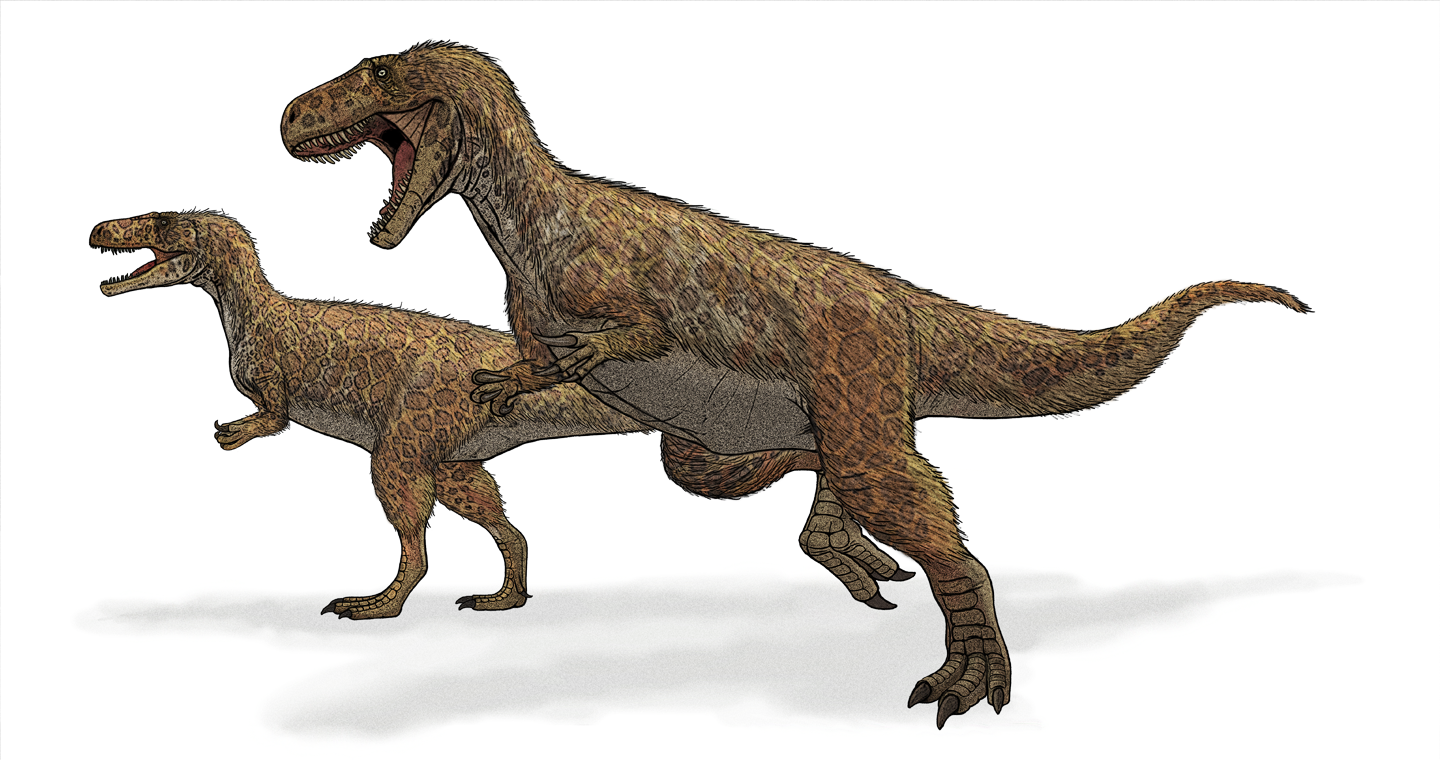 Megalosaurus ('Great Lizard', from Greek, μεγαλο-/megalo- meaning 'big', 'tall' or 'great' and σαυρος/sauros meaning 'lizard') is a genus of large meat-eating theropod dinosaurs of the Jurassic Period of what is now southern England.